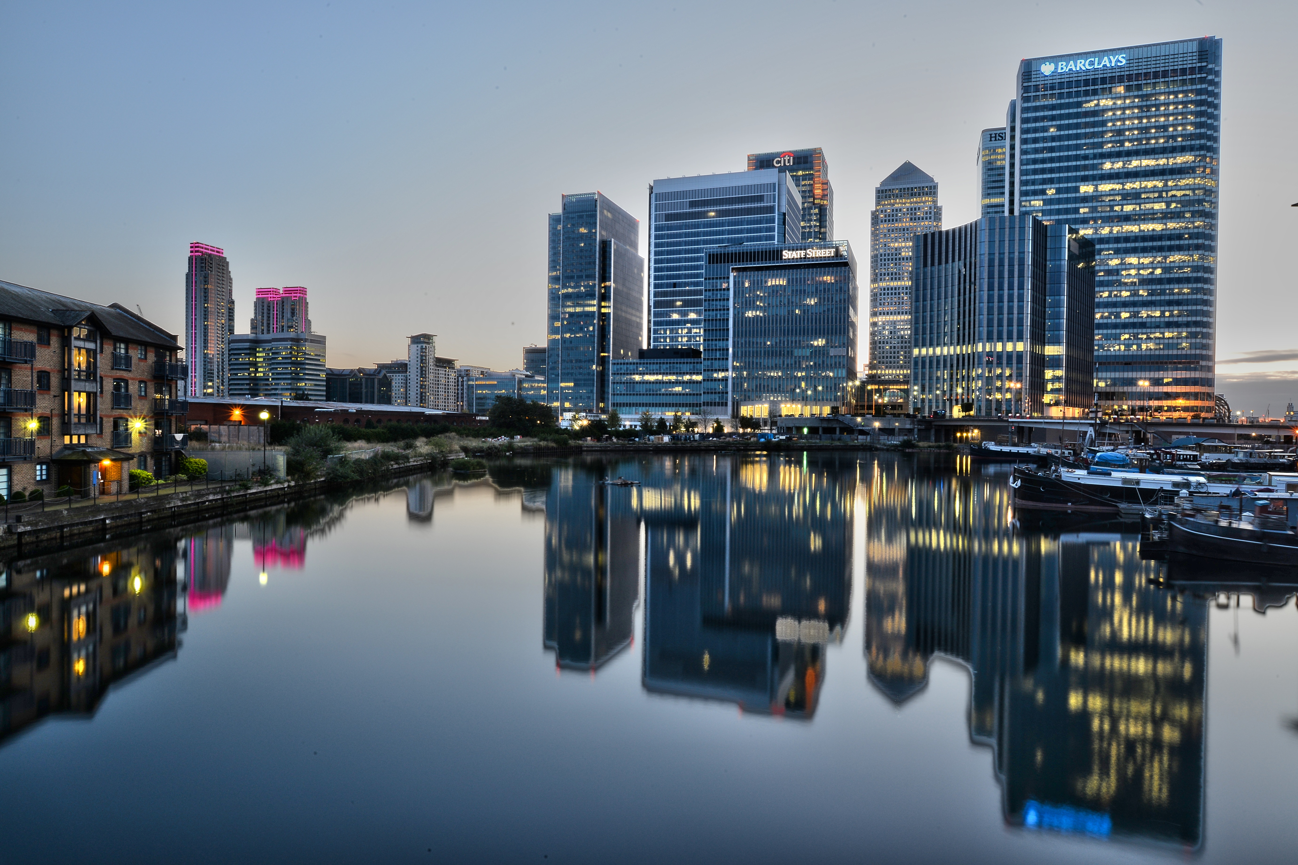 Canary Wharf after sunset